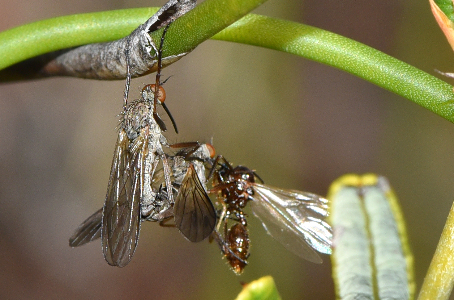 Empididae mating Empid flies prey on other insects. The male will catch an insect for a gift for a female who will accept the gift and the offer of copulation. In these photos the male has caught a wasp that the female is consuming during mating. Photo: Jean